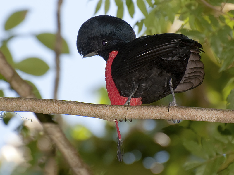 Cephalopterus glabricollis